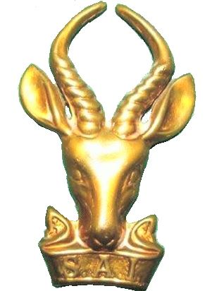 SADF Infantry Beret Springbok ver 1